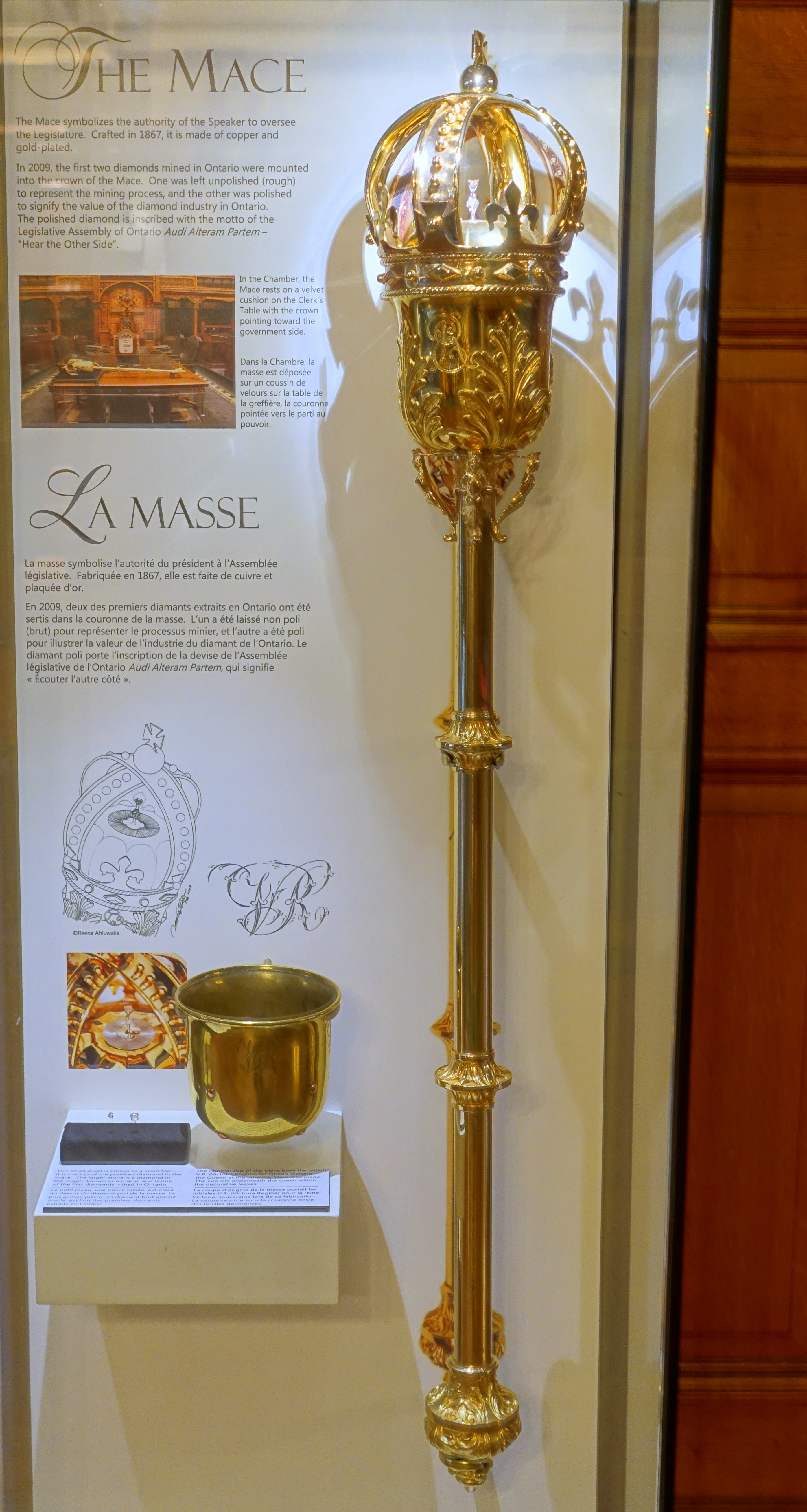 Ceremonial mace in the Ontario Legislative Building, Toronto, Ontario, Canada.